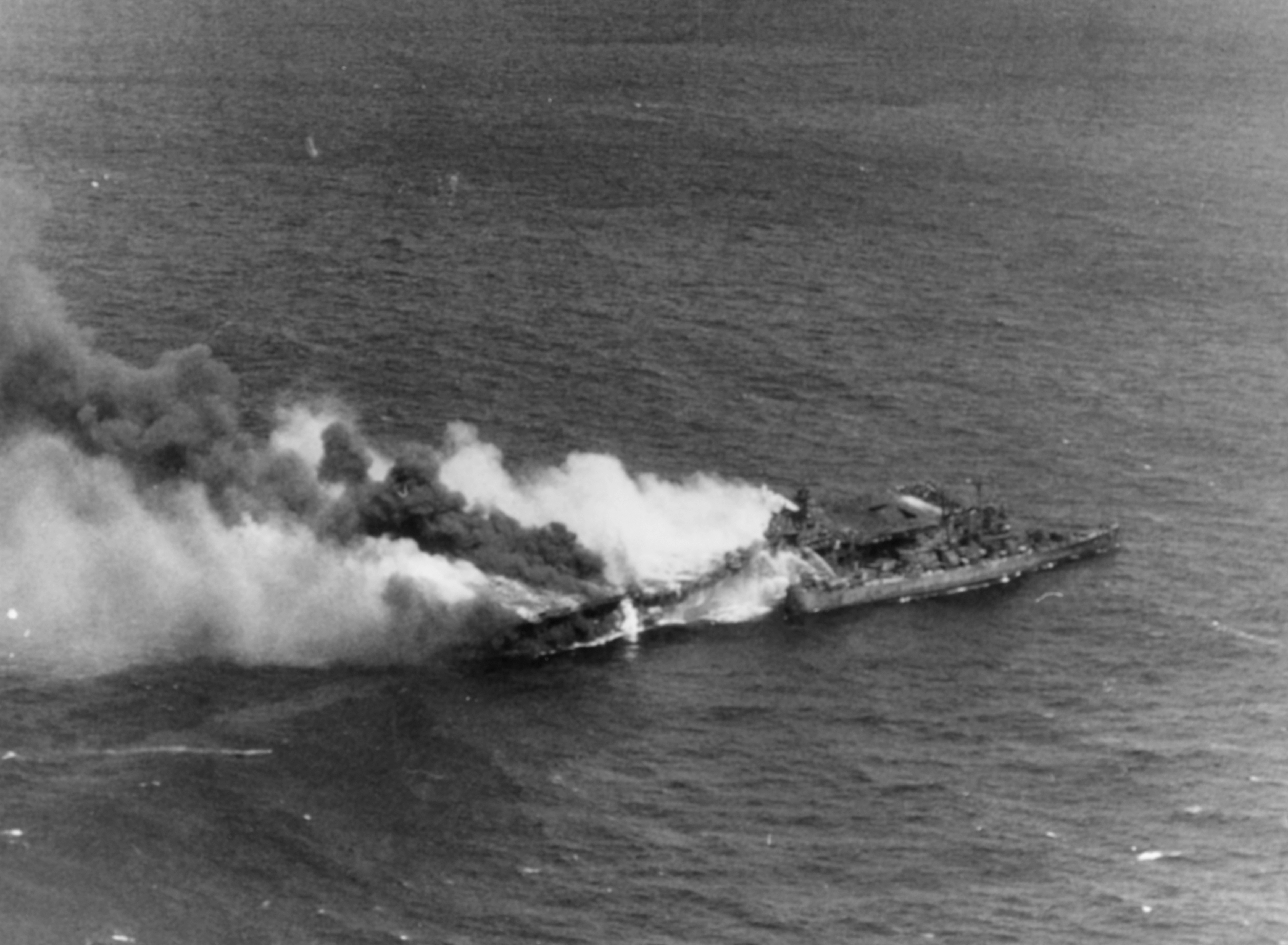 The U.S. aircraft carrier USS Franklin (CV-13) pictured burning in the waters off Japan after being hit during an air attack on 19 March 1945. The light cruiser USS Santa Fe (CL-60) is alongside. The photo was taken by planes from the USS Essex (CV-9) returning from a strike on Kobe, Japan.